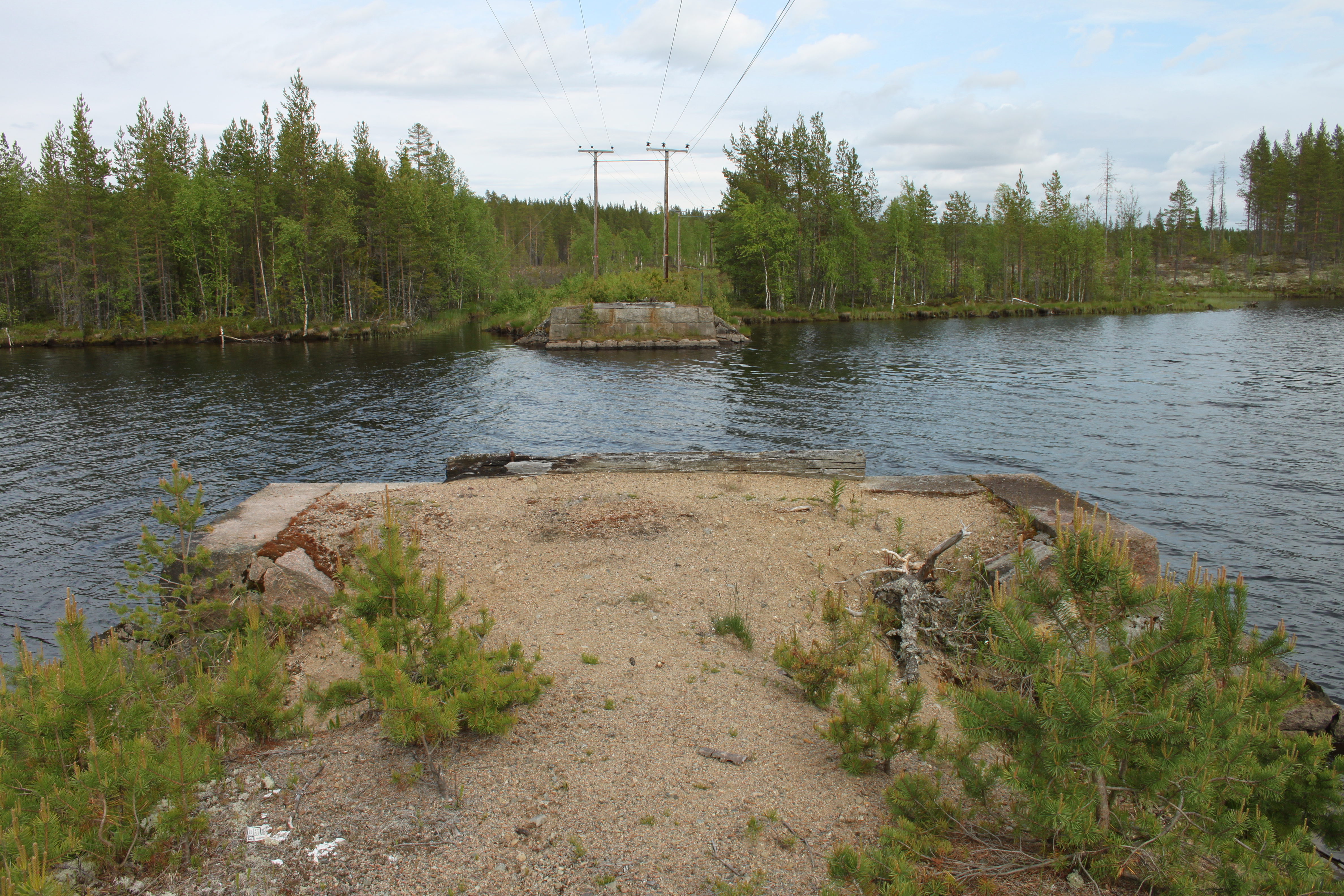 Old railway line Sveg-Hede east of Glissjöberg, Härjedalen, Sweden. The bridge crossing river Veman has been removed. The old railway line is here used as a corridor for power lines and fiber cables.